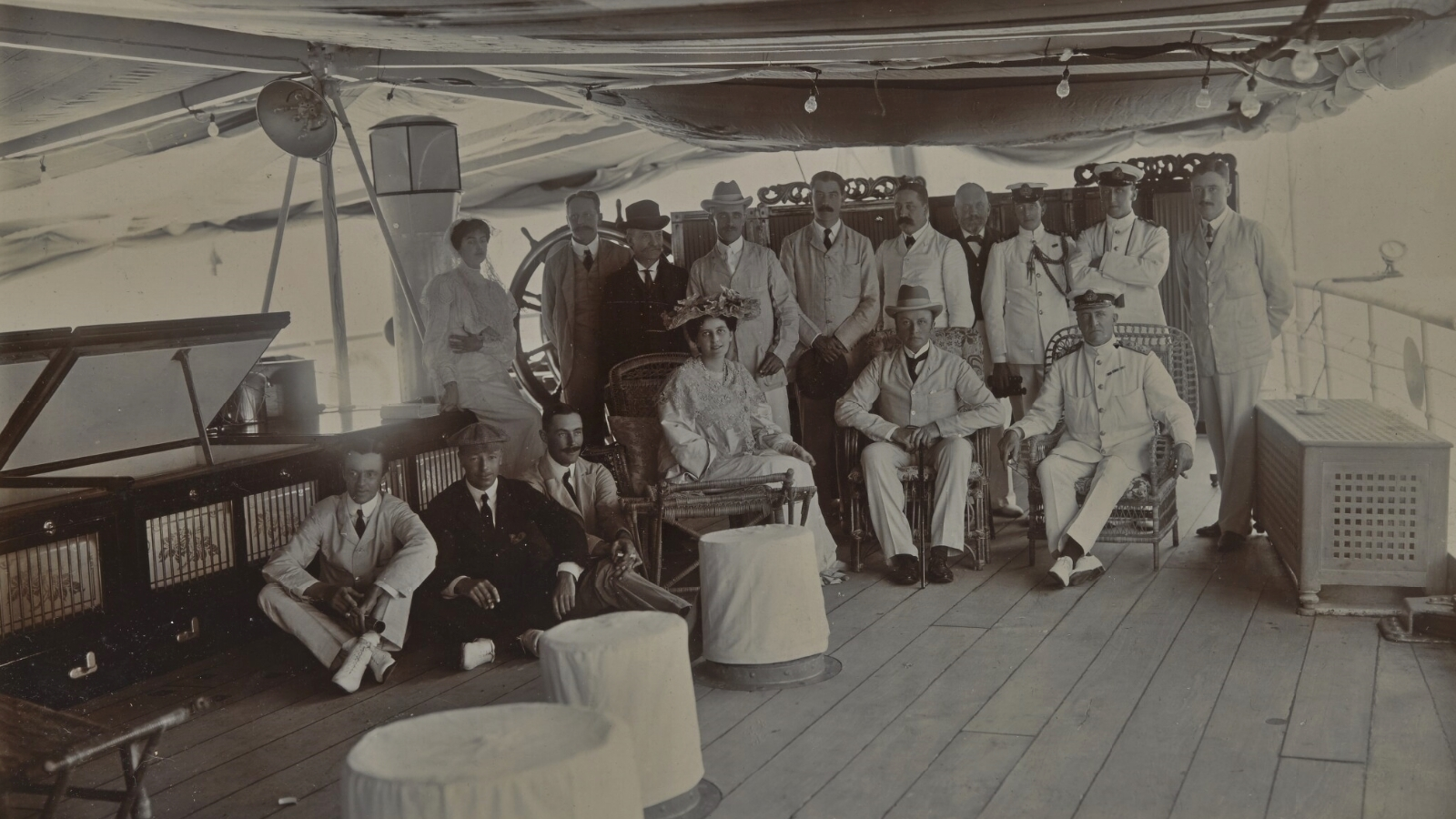 Lord and Lady Curzon on tour of Oman, Kuwait and other Persian Gulf ports in November and December 1903. The goal of the extensive visit was to expand the role of the Indian Empire in the Persian Gulf. Photographer unknown.